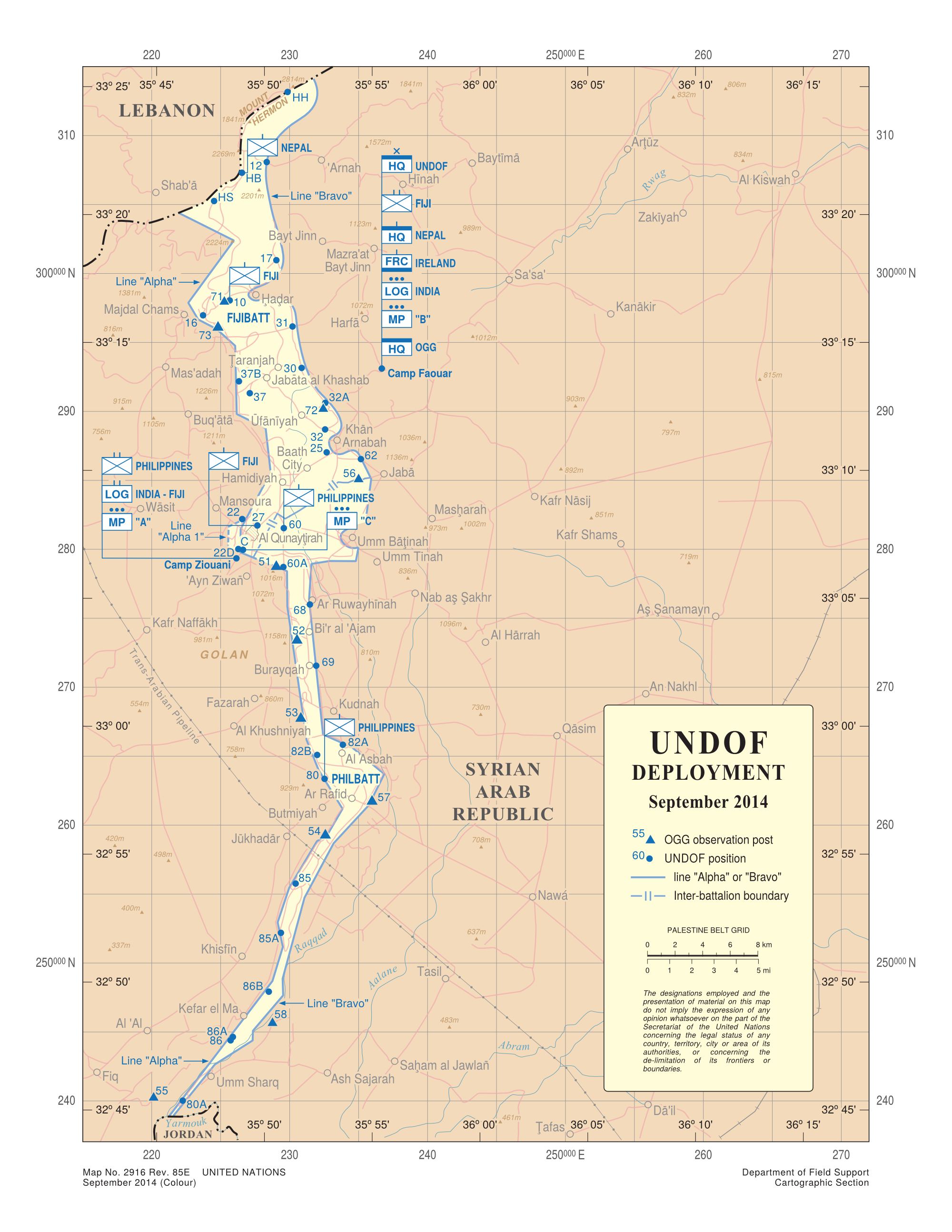 UNDOF deployment. Map No. 2916 Rev. 85E; UNITED NATIONS; September 2014; (Colour)